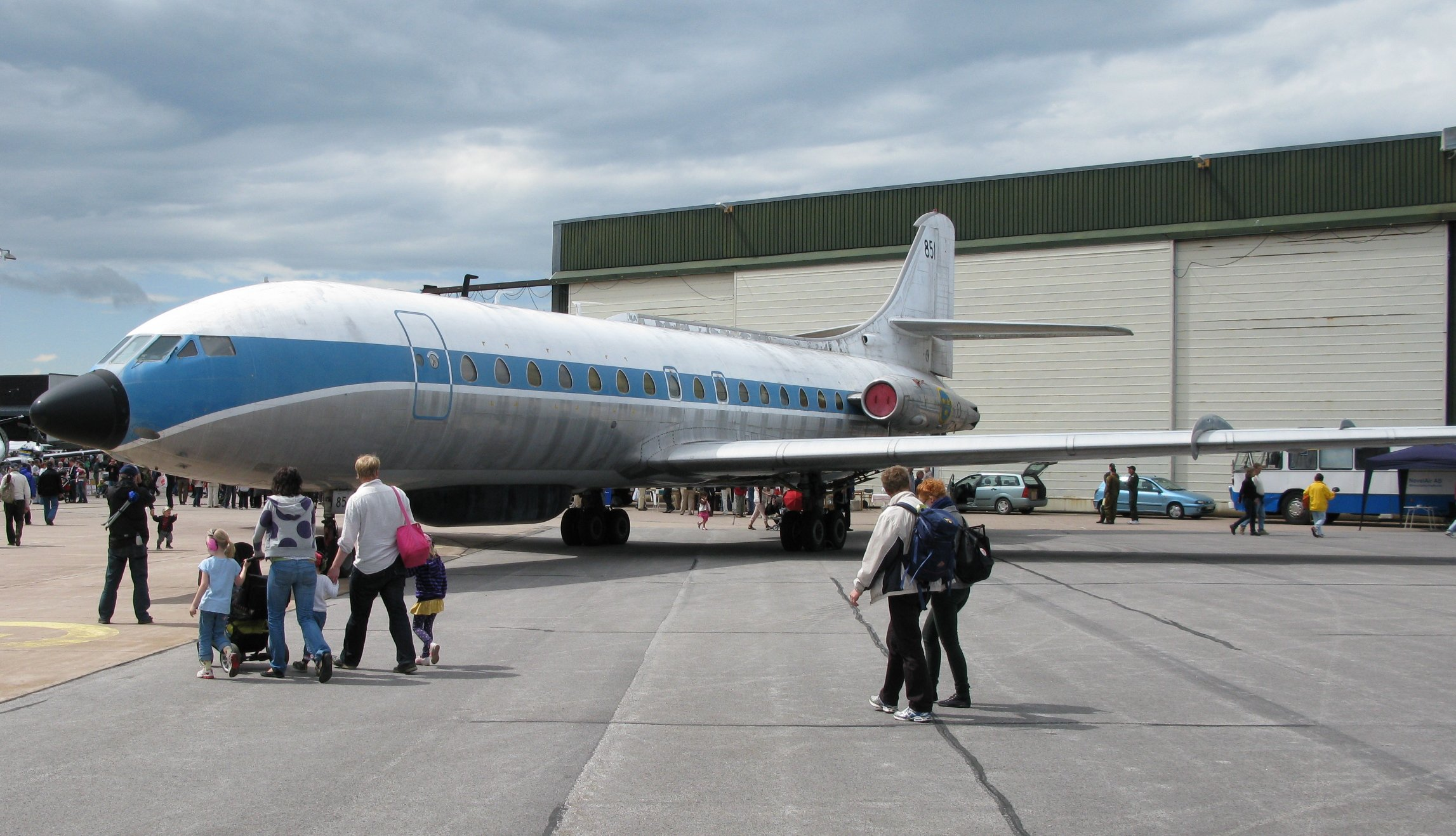 Sud Aviation Tp85 Caravelle, Swedish Air Force s/n 85172, former Scandinavian Airlines System SE-DAG. Property of the Swedish Air Force Museum.The Swedish Air Force had two ex-SAS Caravelle III in service between 1971 and 1998. This aircraft was used for electronic countermeasures and electronic intelligence missions. The second Caravelle, s/n 85210, was mainly used for VIP transport.Event: Swedish Armed Forces’ Air Show at Malmen, Linköping 2010.